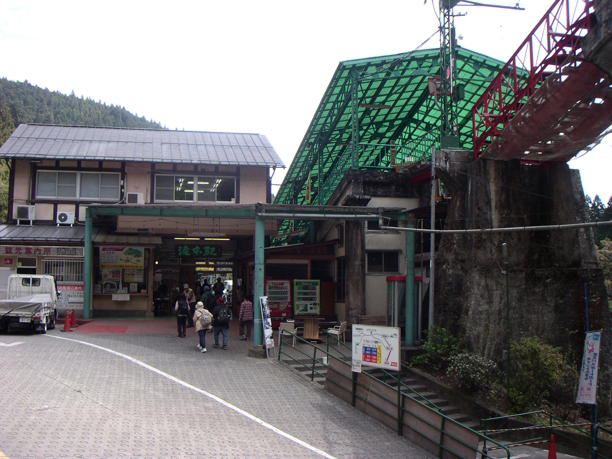 Takimoto Station of Mitake Tozan Railway